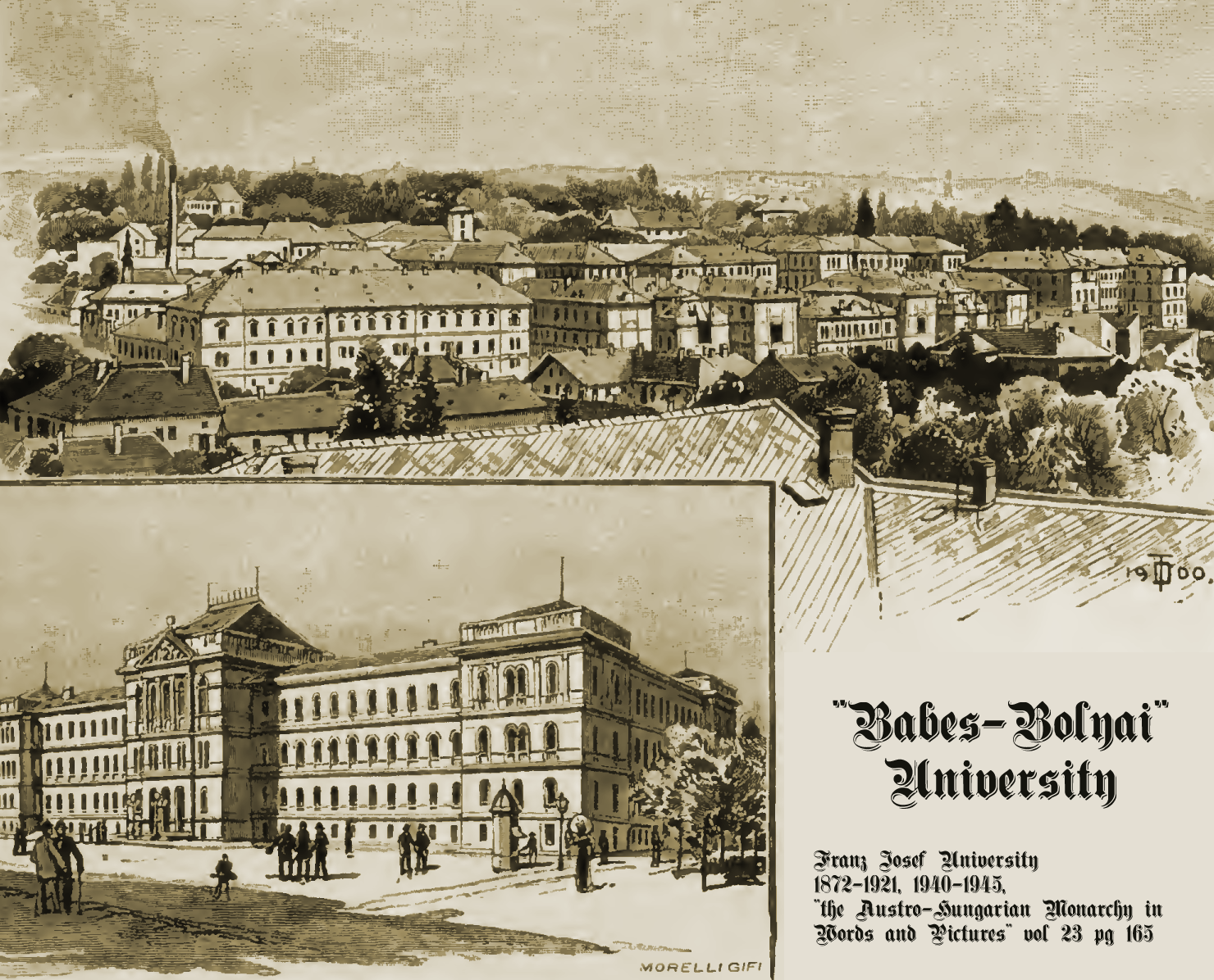 Babes-Bolyai University around 1900